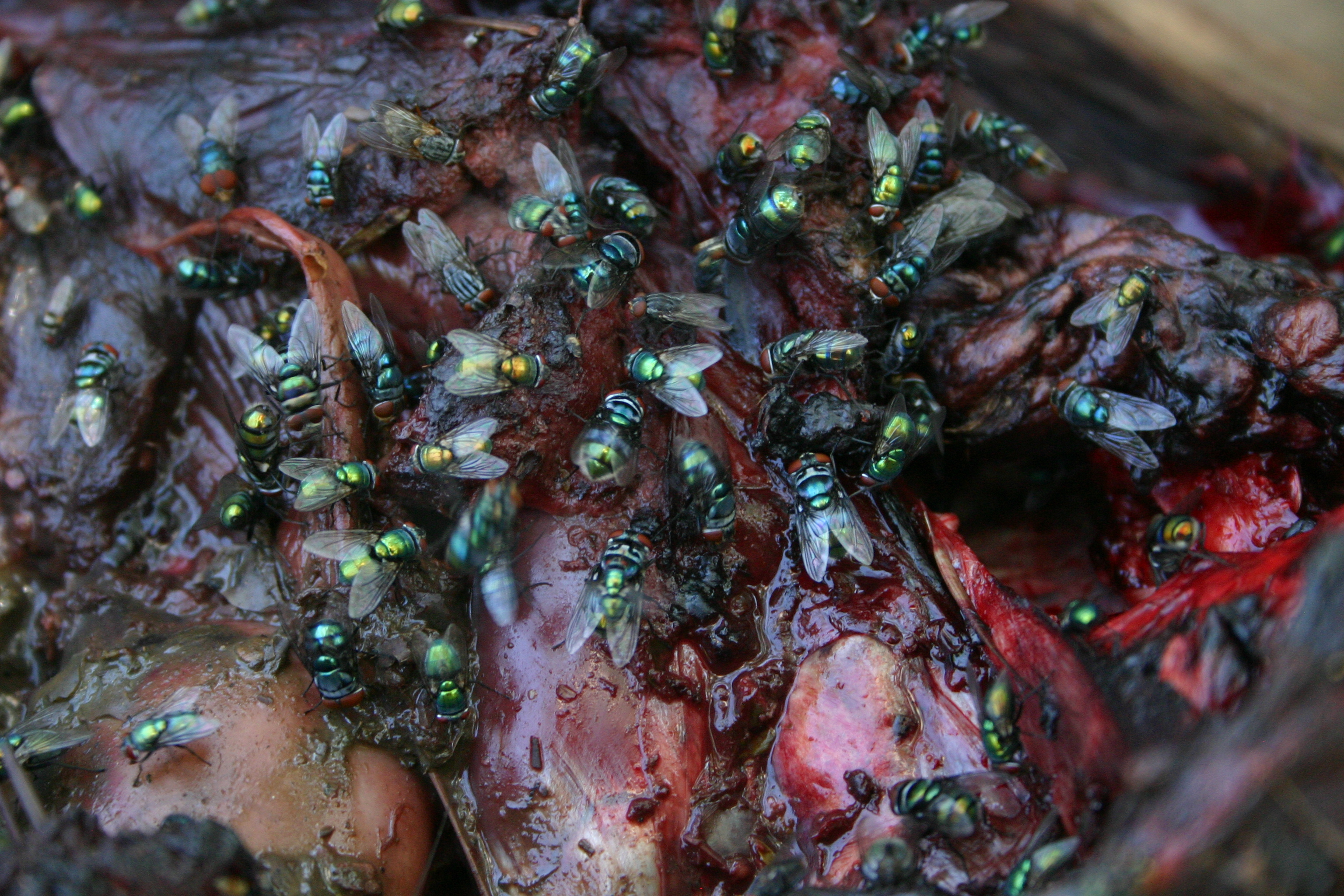 Blowflies and flies on fresh corpse of South African Porcupine (Hystrix africaeaustralis), Honeydew, Gauteng